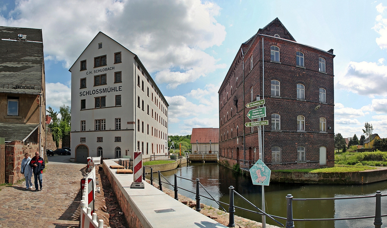 Rochlitz, "Schlossmühle", old watermill on the Mulde river.